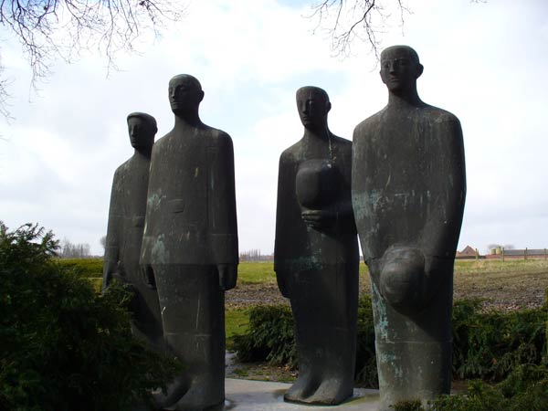 Emil Krieger: "Mourning soldiers" (German war graves cemetry at Langemark, Belgium)